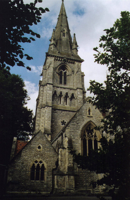 St Thomas & St Clement, Winchester Grade 2 listed building erected in 1845. Became redundant in 1970 and has been converted into offices.